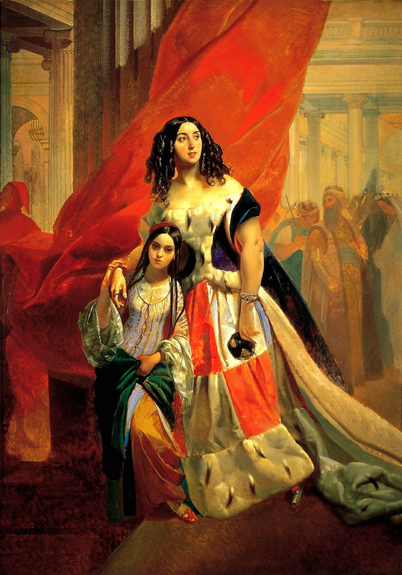 Portrait of Countess Julia Pavlovna Samoilova moving away from the ball with her adopted daughter Amazilia Pacini (Masquerade). Not later than 1842. Oil on canvas. 249 x 176 cm. The State Russian Museum, St. Petersburg, Russian.See also a 1864 painting of the interior of Kokorev's Gallery featuring Brullov's painting: File:Картинная галерея В.А. Кокорева. 1864. А. Гребнев.jpg.